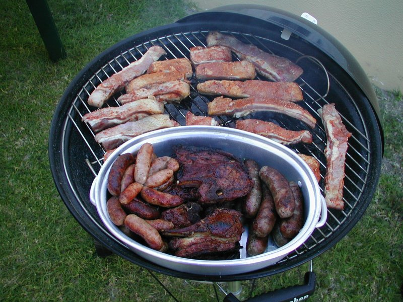 South Africa Braaivleis in JBay Nick Roux 2003.